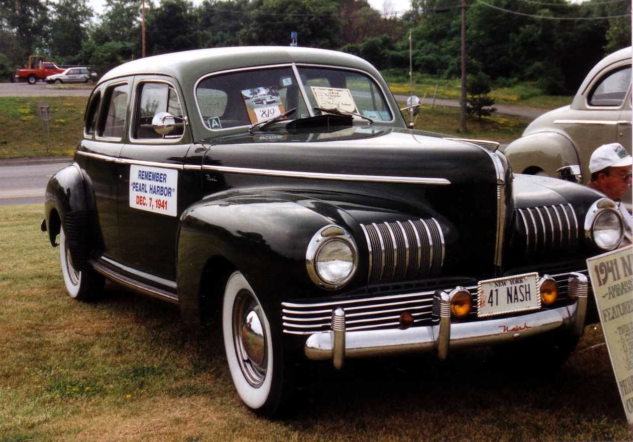 1941 Nash Ambassador, black four-door sedan. Note the 'A' sticker on the windshield. By the end of 1942, about half of automobiles in the U.S. had this sticker that was issued to owners whose use of their cars was nonessential to the war effort. This allowed them to purchase only up to four gallons of fuel per week. For nearly a year, A-stickered cars were not to be driven for pleasure at all.